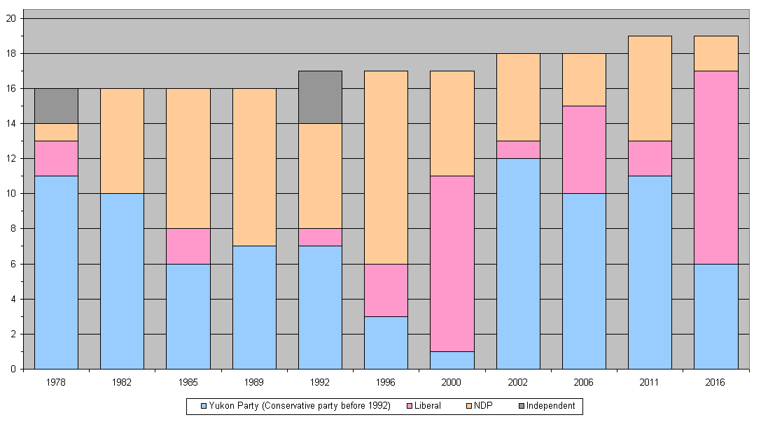 Image created by me from a graph produced in MS Excel, using data from List of Yukon general elections